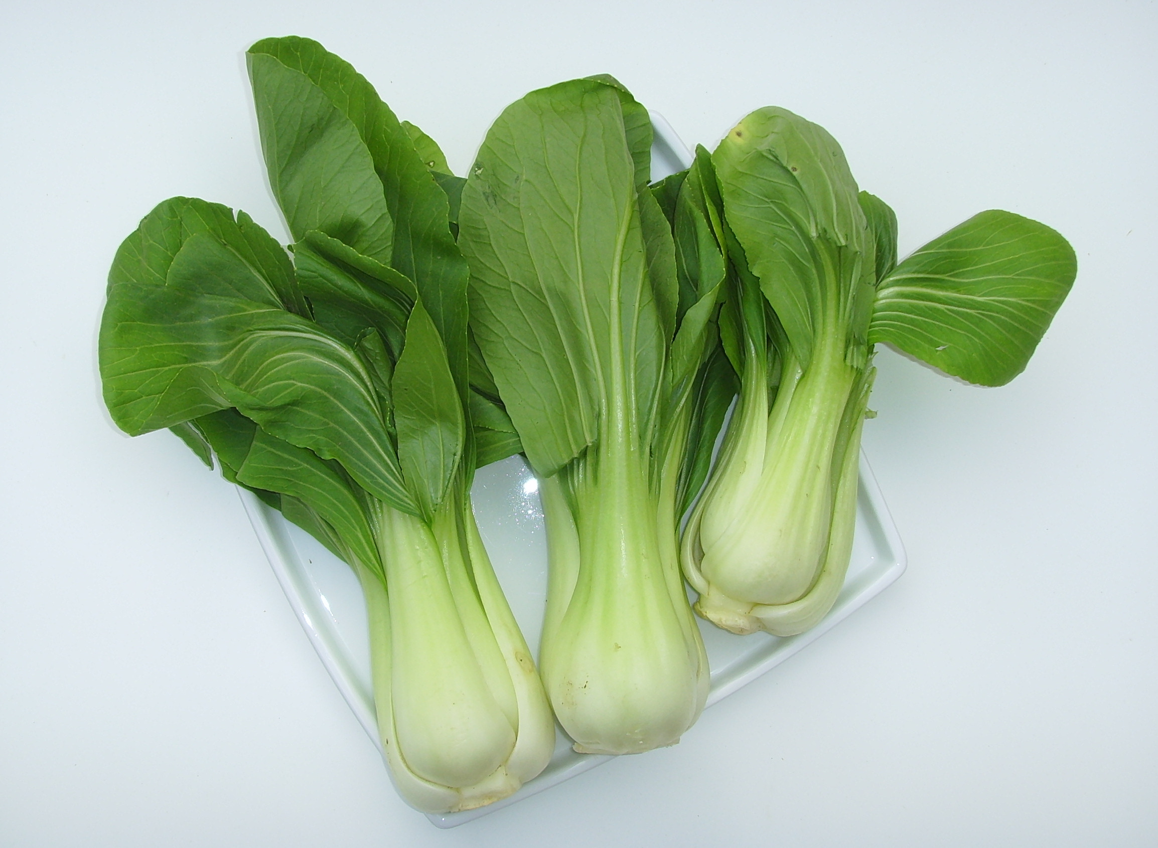 Pak Choi